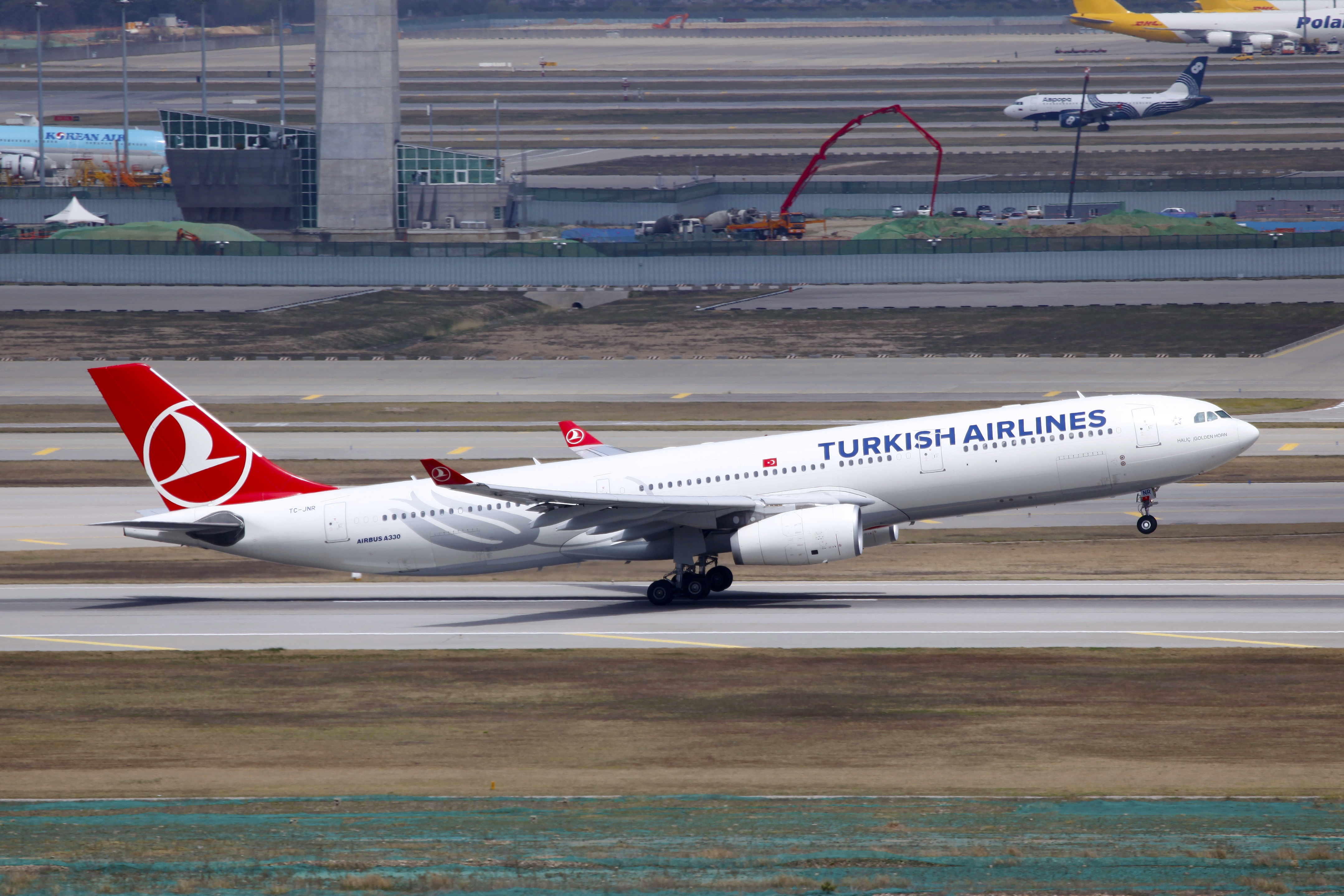 TC-JNR / Turkish Airlines / Airbus A330-343 / Seoul Incheon International Airport [ICN]